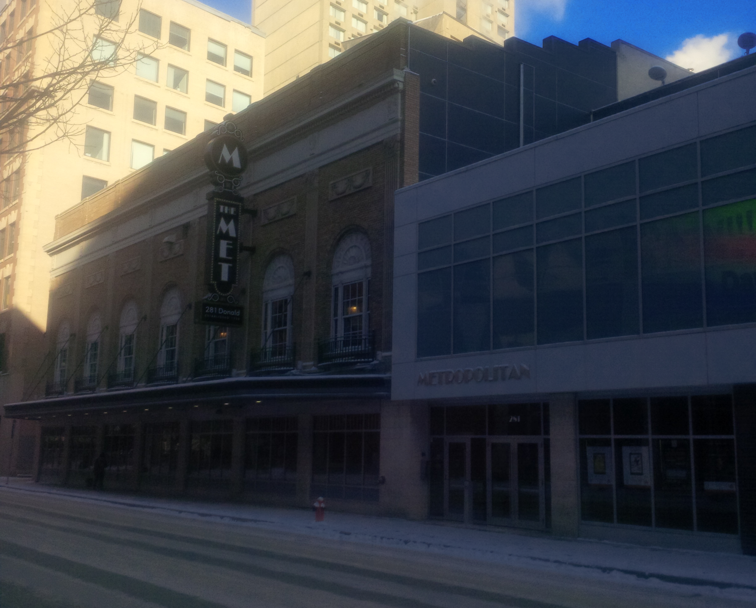 Building exterior of Metropolitan Theatre in downtown Winnipeg. Former Allen Theatre built in the 1920s.